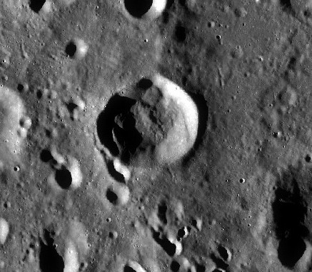 Thiel lunar crater - LRO WAC image